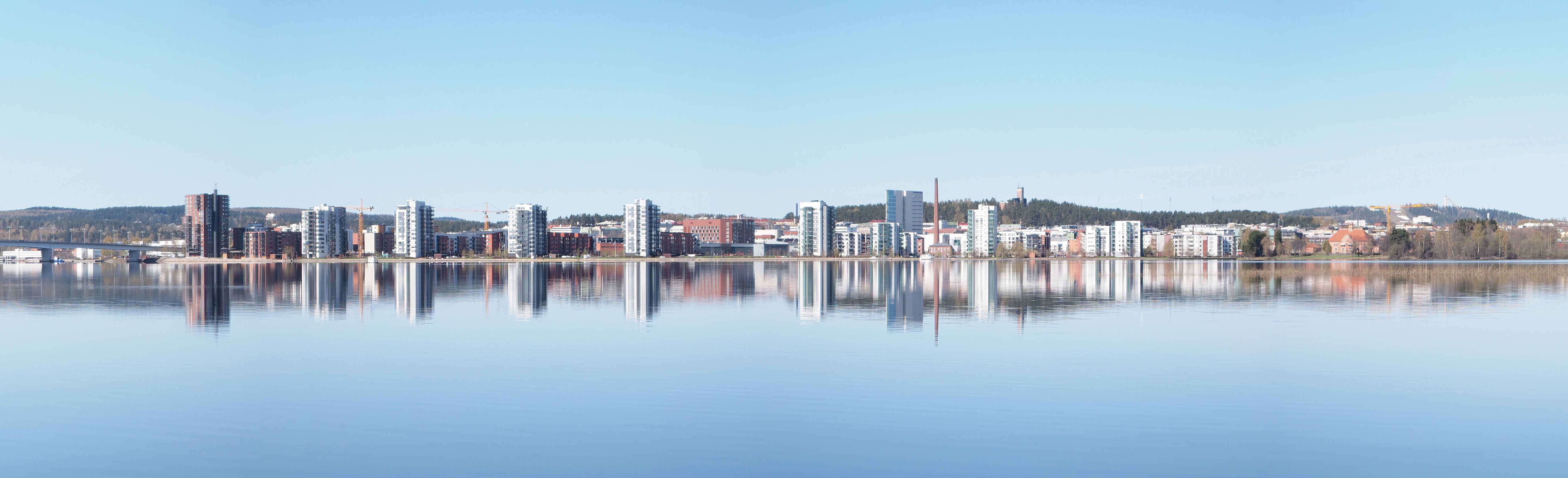 Buildings along Jyväsjärvi lake in Jyväskylä, Finland.